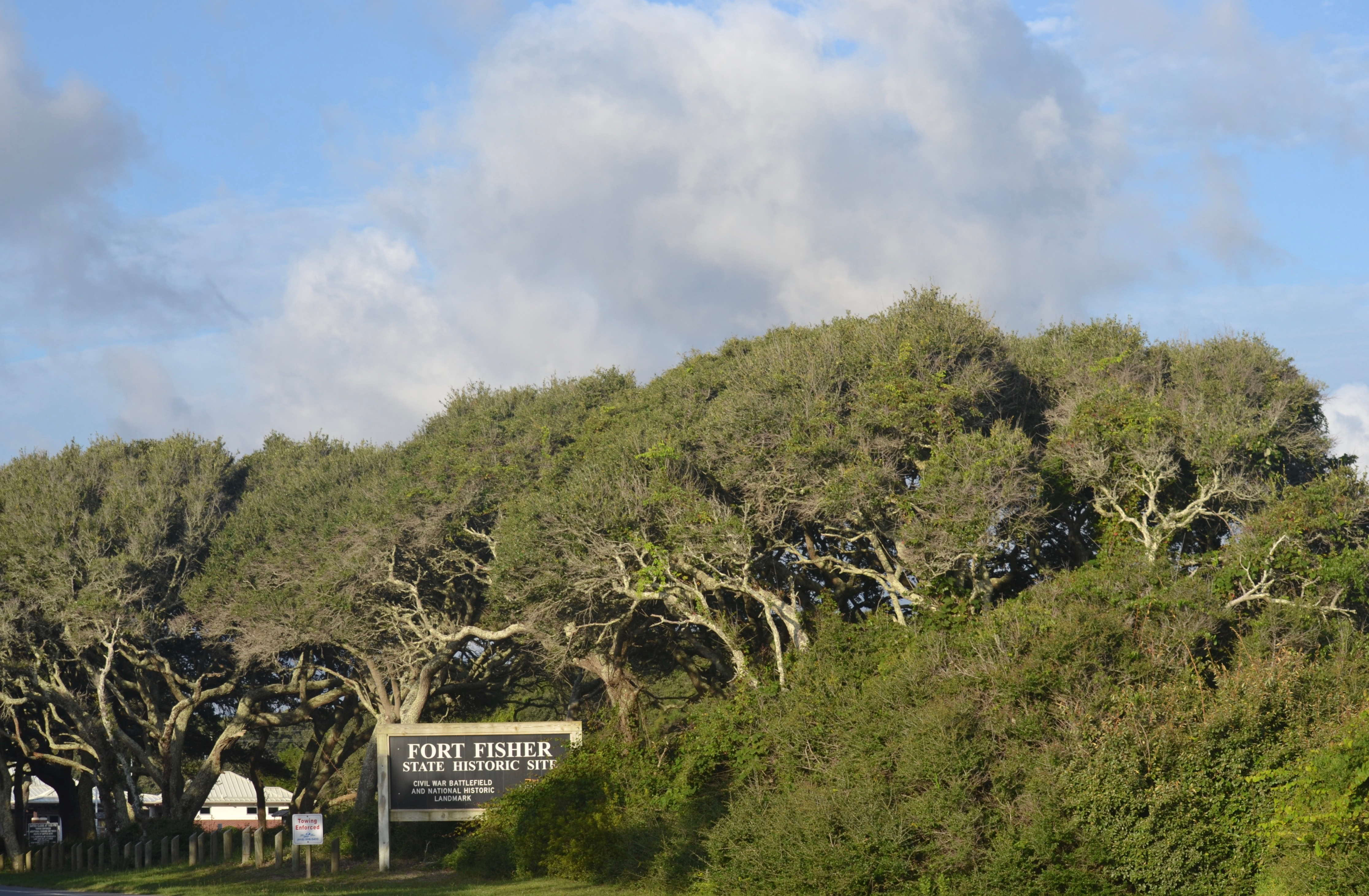 Fort Fisher Battle Ground 2108